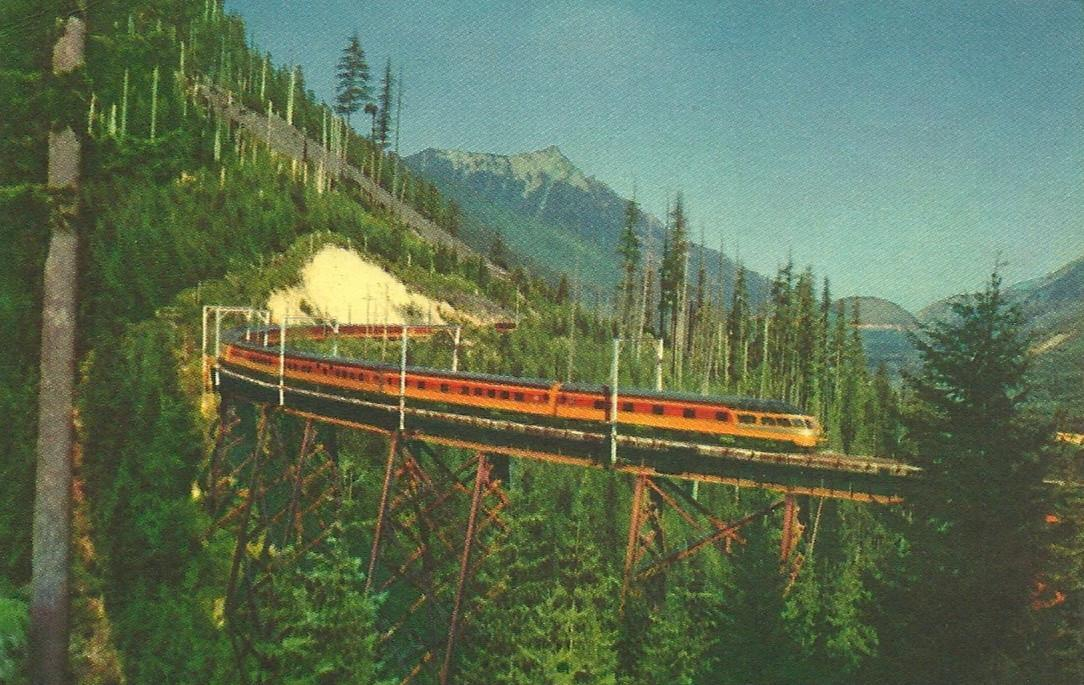 Postcard photo of the Milwaukee Road's "Olympian Hiawatha" in the Cascade Mountains. The distinctive Sky Dome observation car can be seen in the photo.